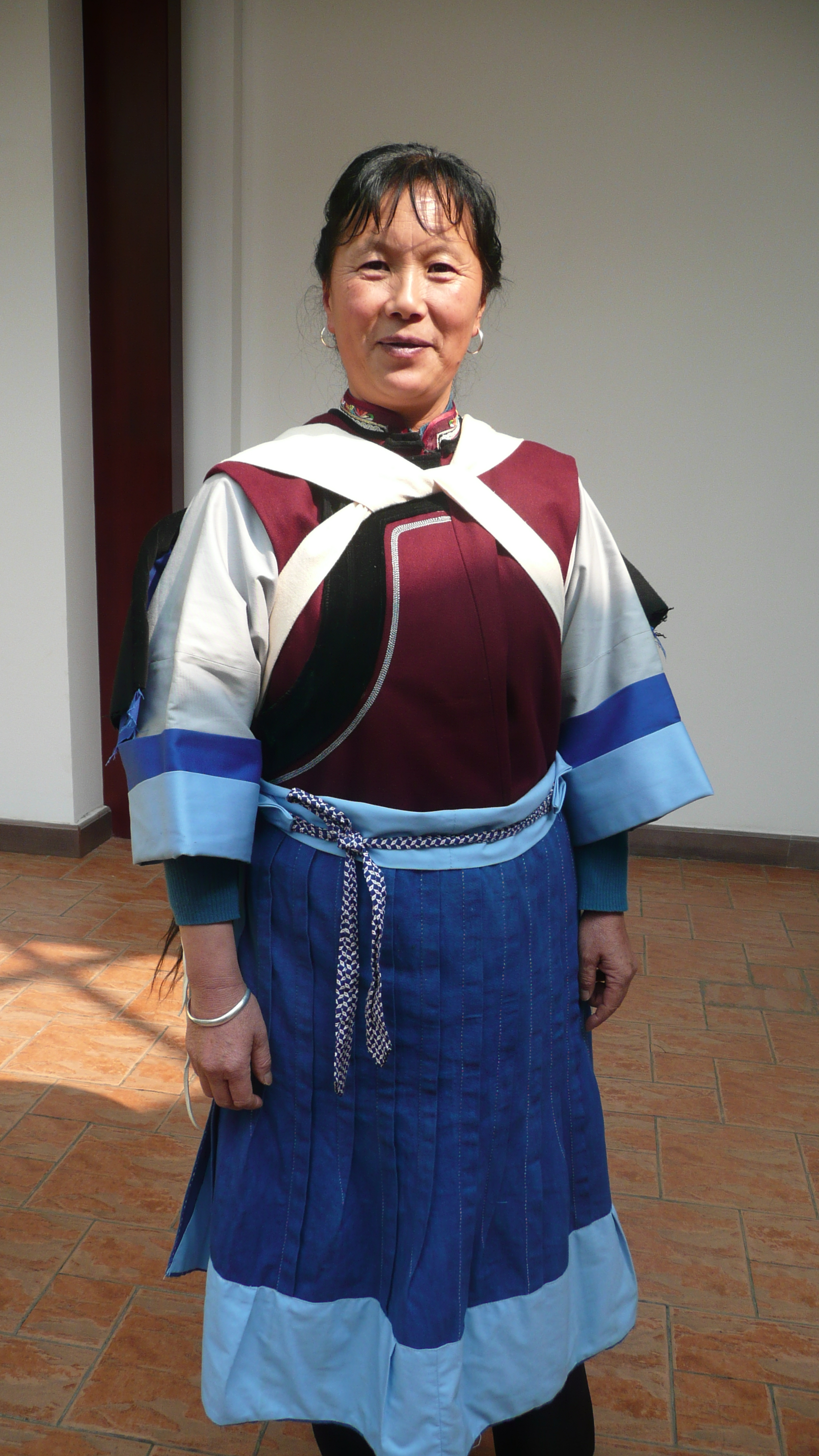 Naxi minority in Lijiang (Yunnan)